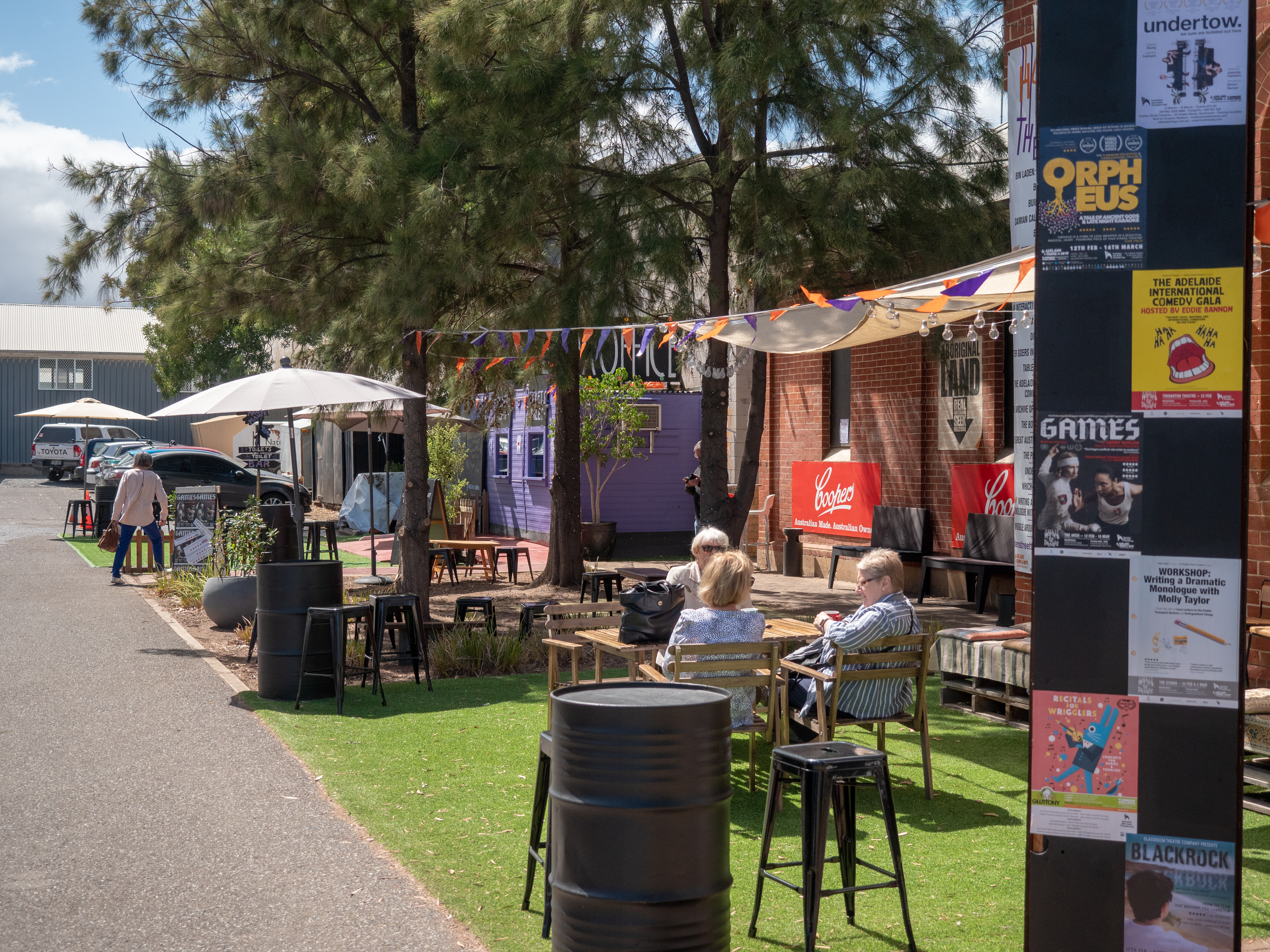 Taken by Paddy Power, this image is of our venue during our 2019 Fringe Season.